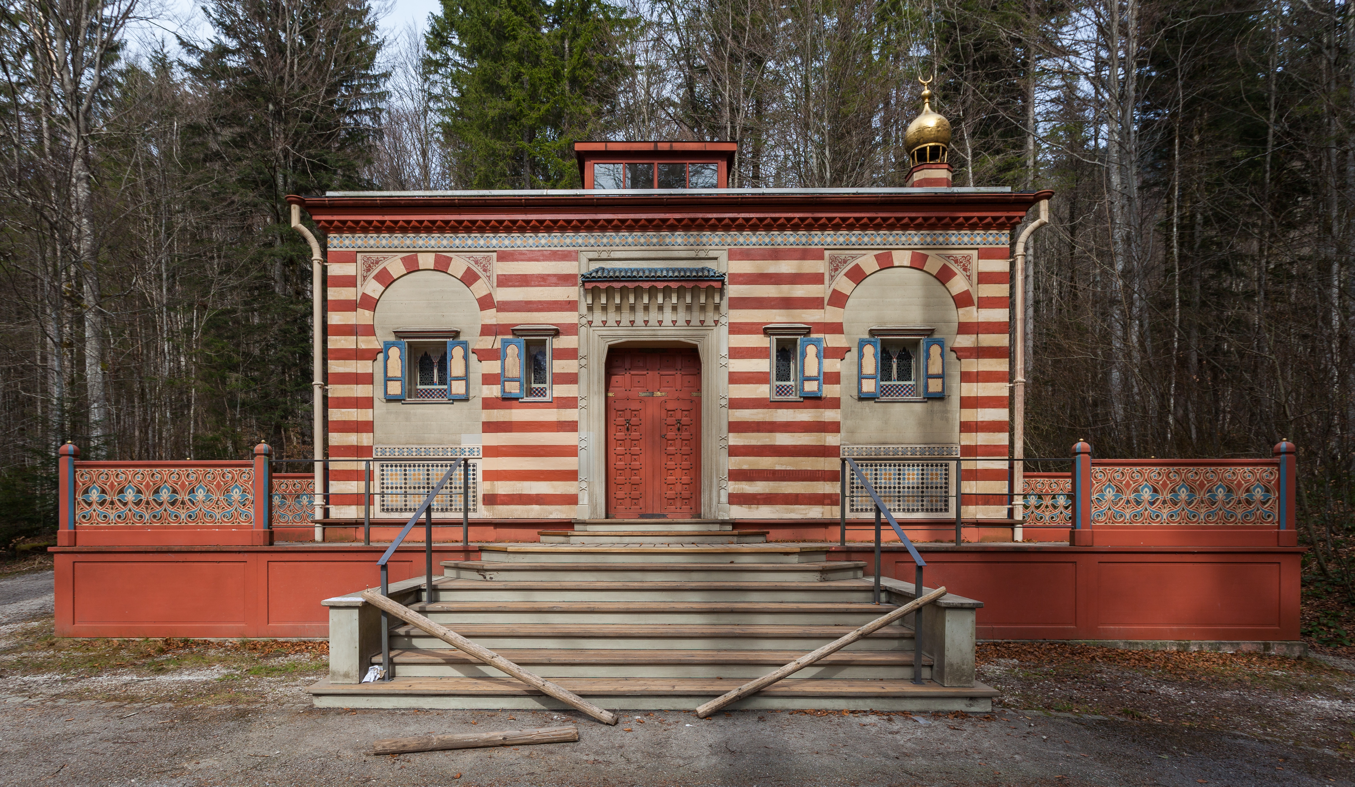 Moroccan House, Linderhof Palace, Bavaria, Germany